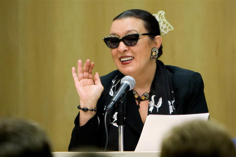 Martirio, in 2012 at Tomasene cultural centre.